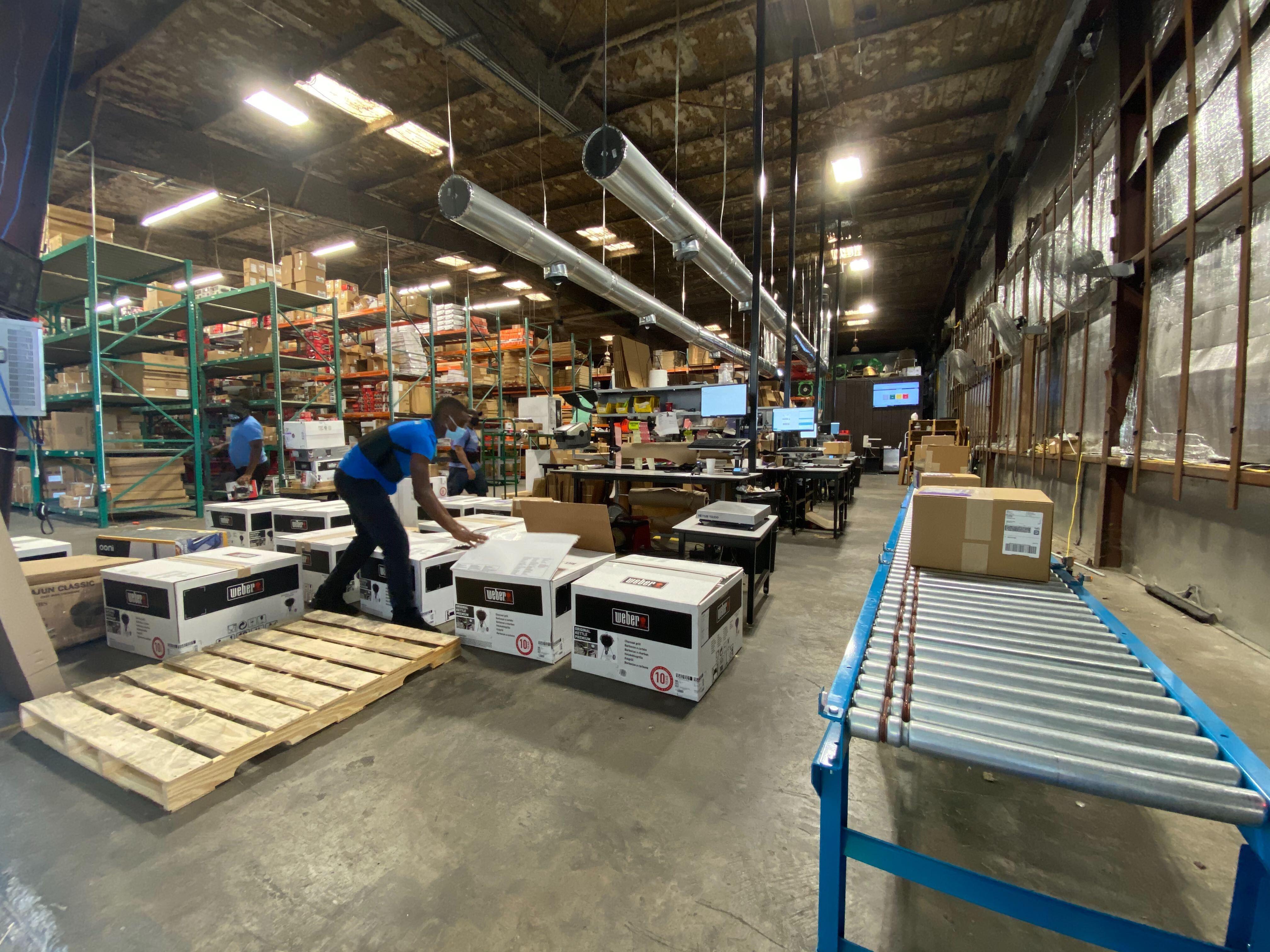 This is a personally taken photo of BBQGuys' expanded warehouse.